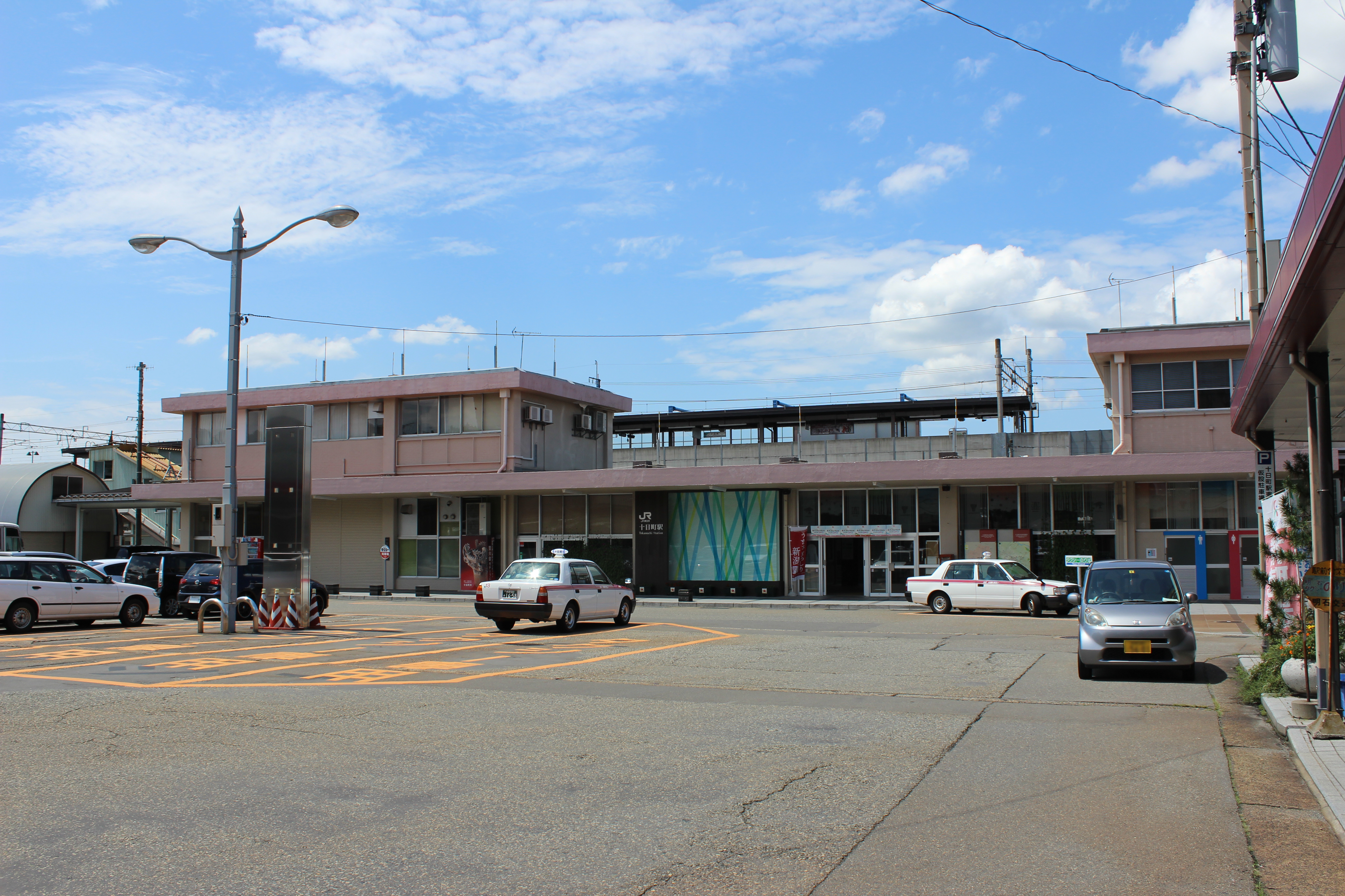 The east side of Tokamachi Station in Tōkamachi, Niigata, Japan